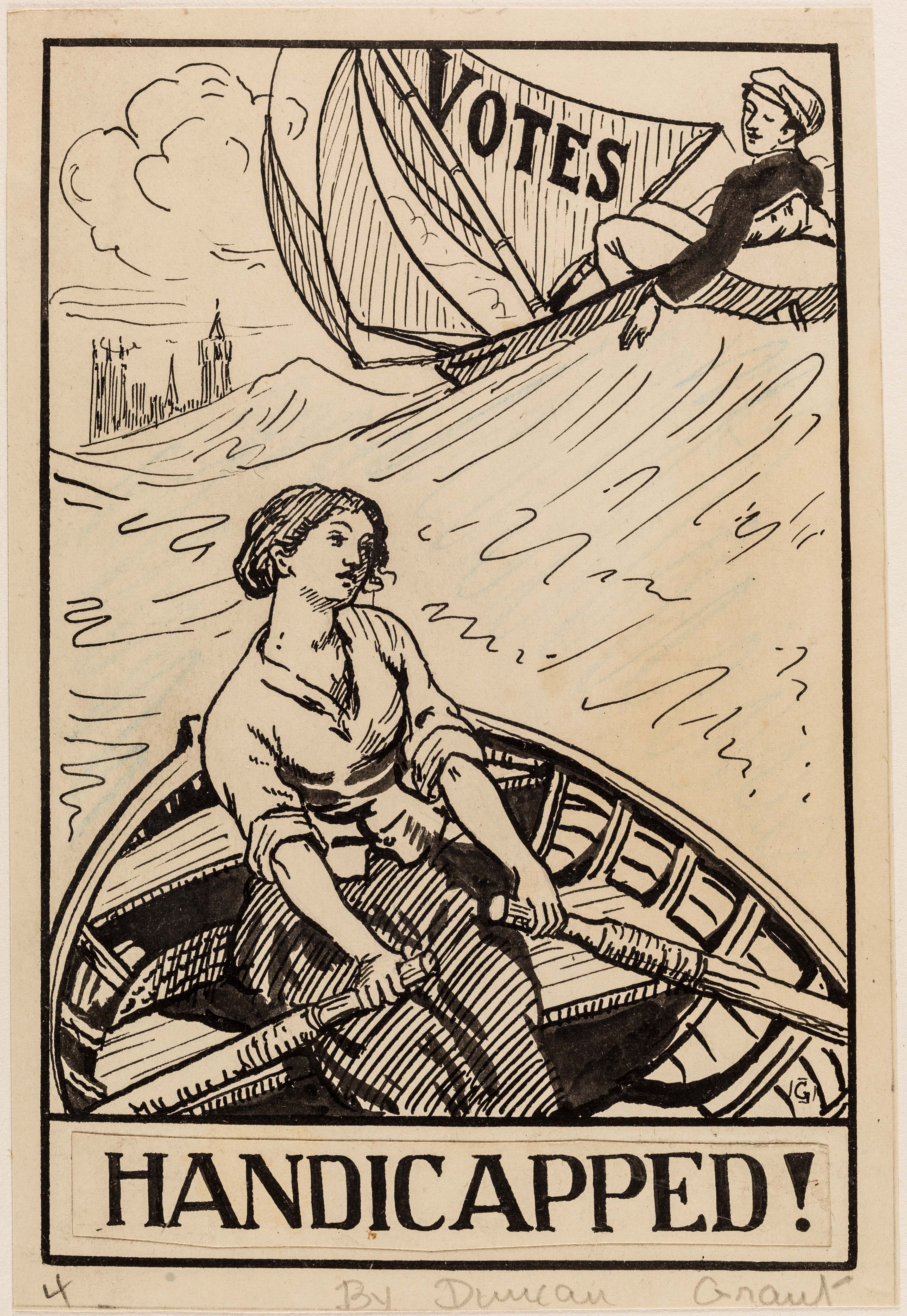 Handicapped by Artists Suffrage League's Duncan grant won their 1909 competition for a poster